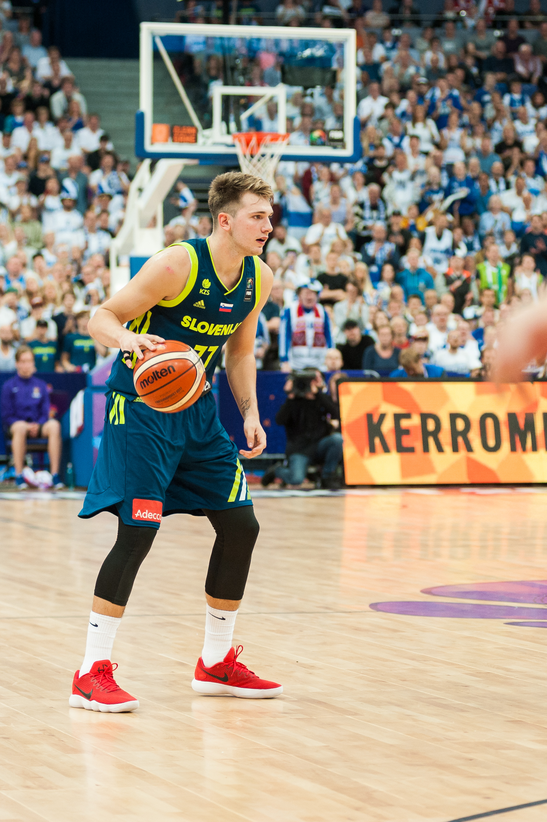 EuroBasket 2017 Group A game between Finland and Slovenia at Hartwall Arena in Helsinki, Finland.